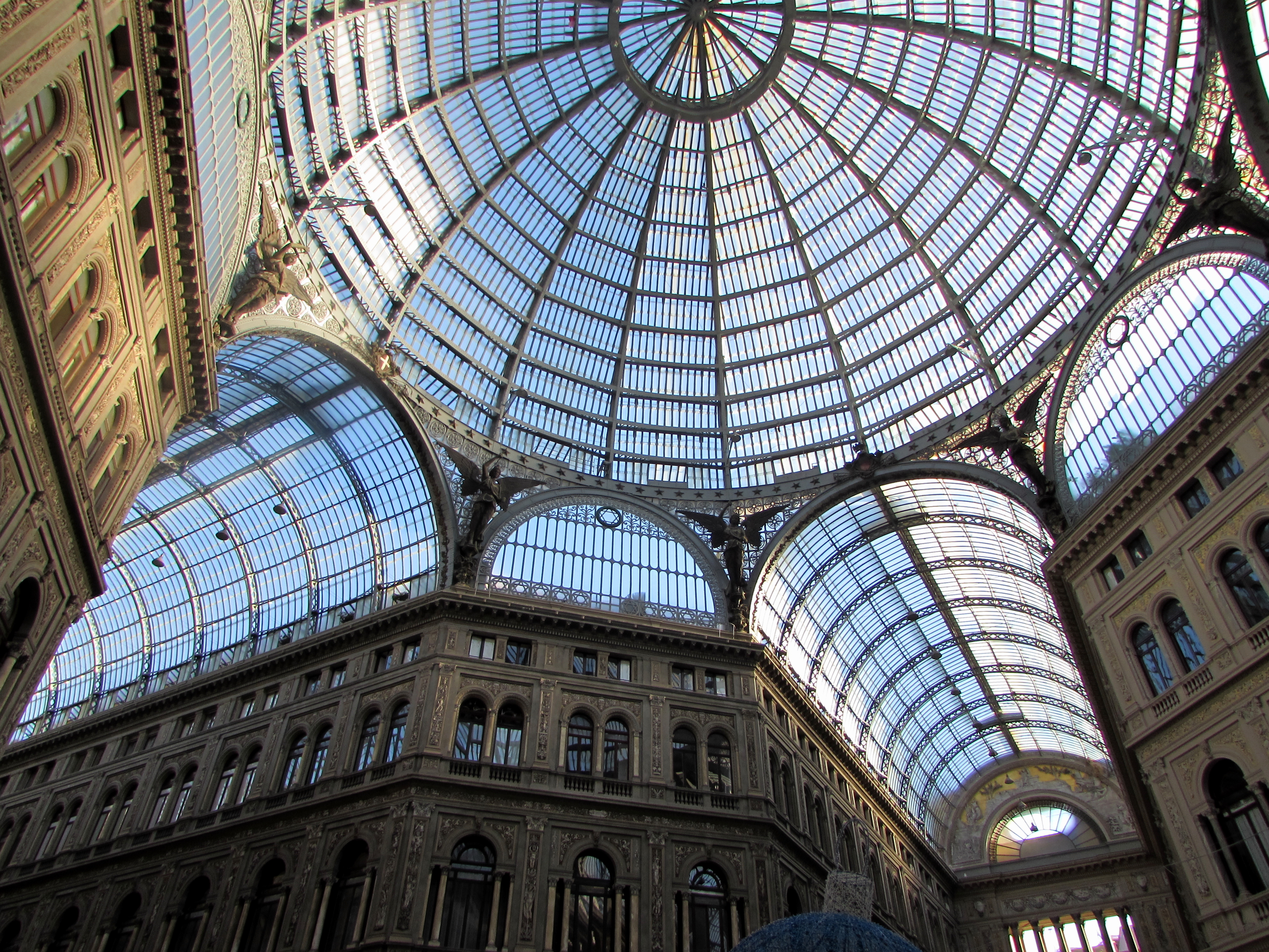 Galleria Umberto I in Naples